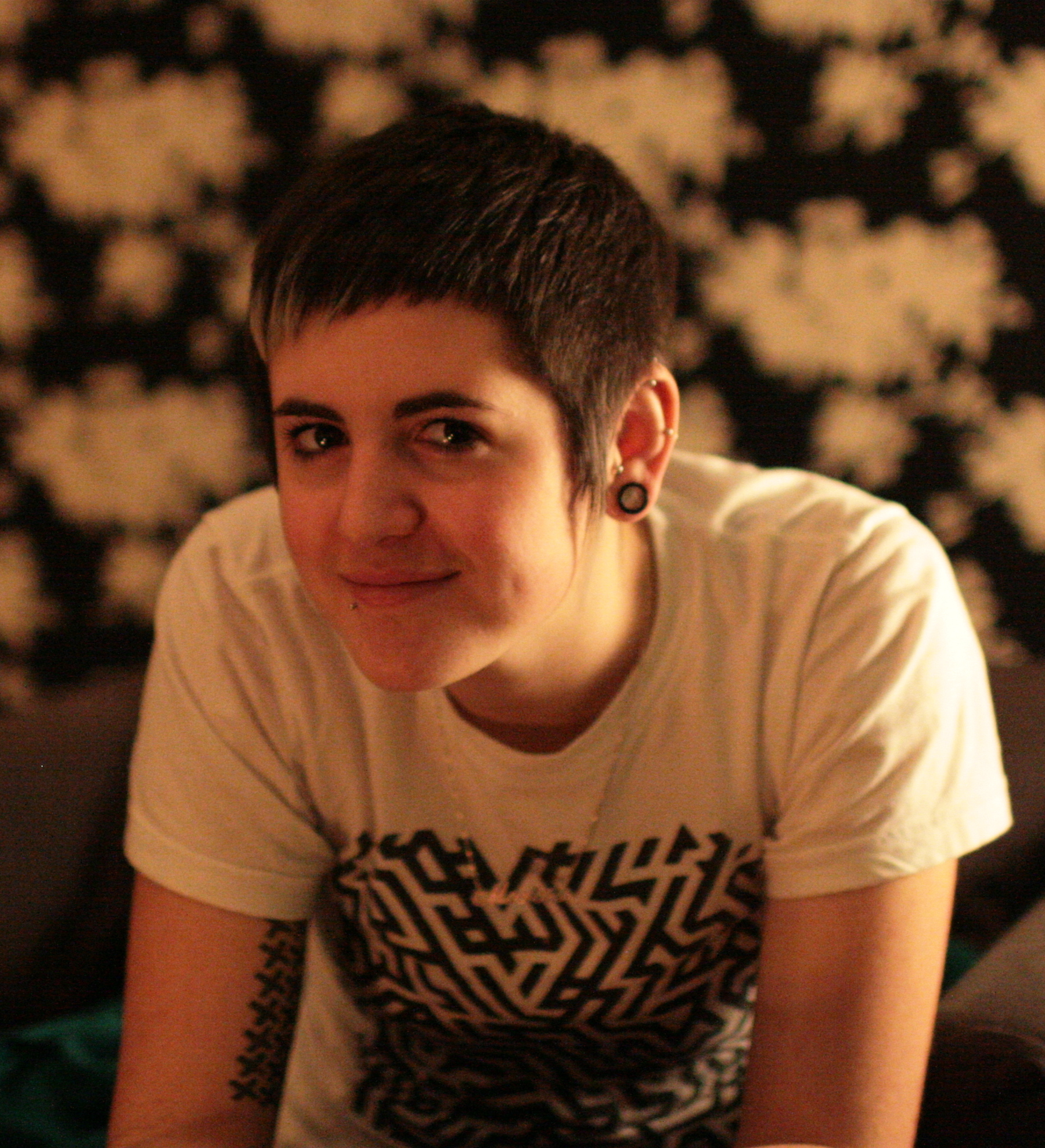 English designer, illustrator, and art director Kate Moross